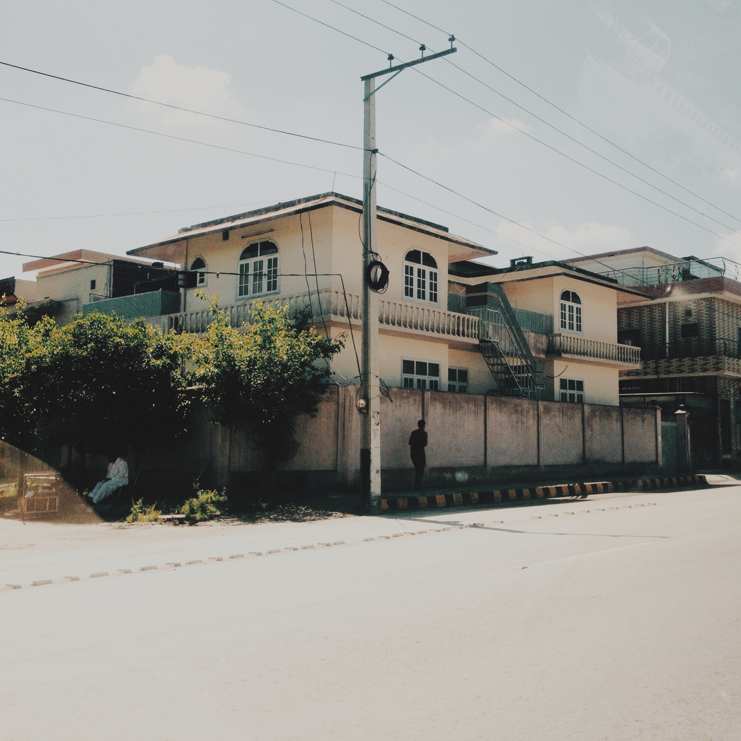 A residential road in Hayatabad, a suburban town on the fringes of Peshawar.